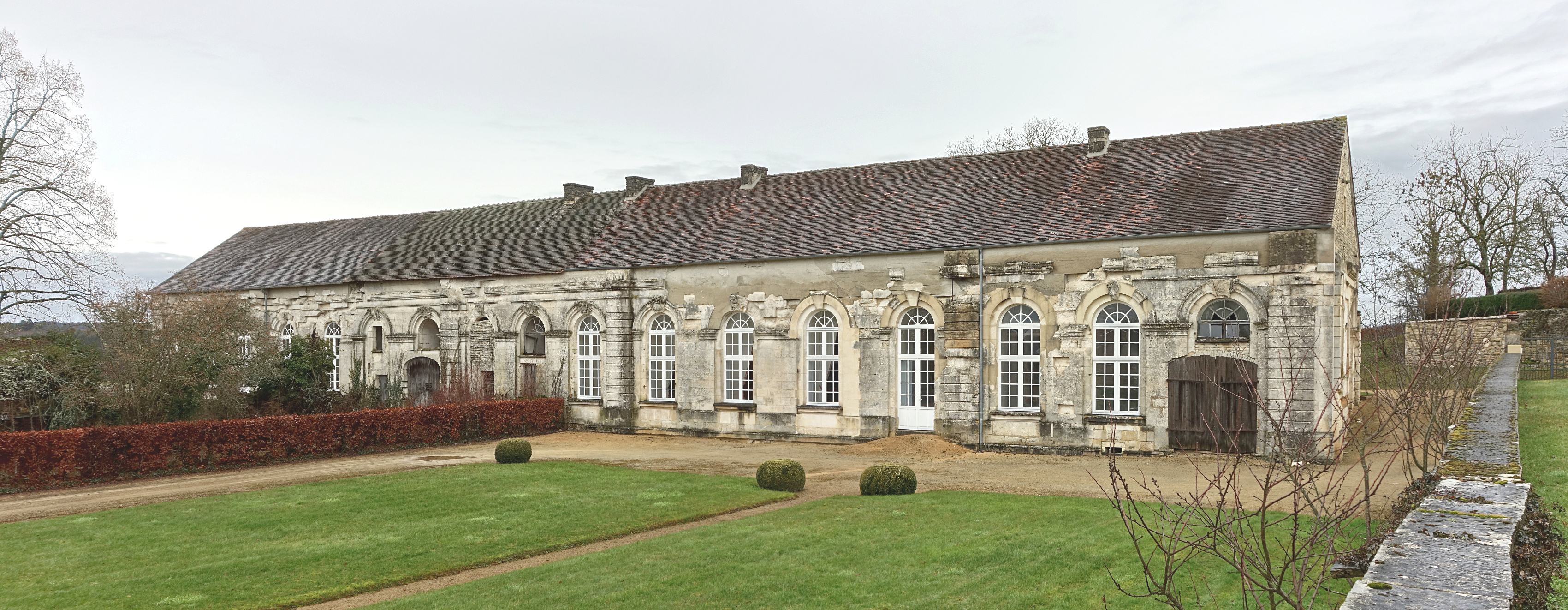 Molesme Abbey in France. .